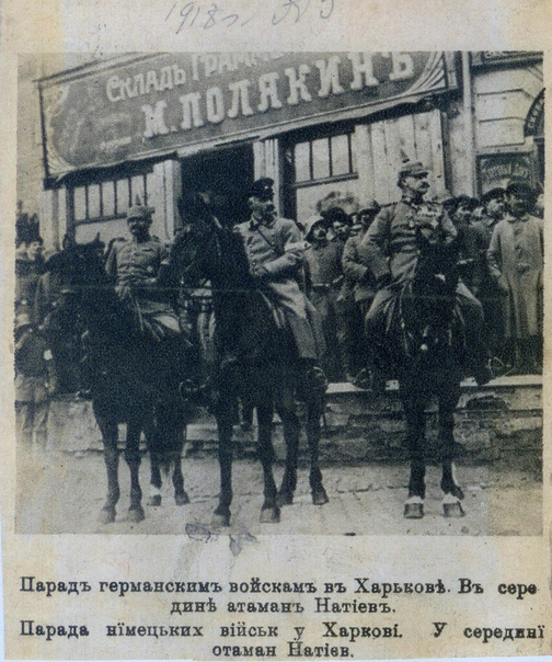 German troops parade Kharkiv, Ukraine, 1918. Ukrainian general Oleksandr Natiev in the middle